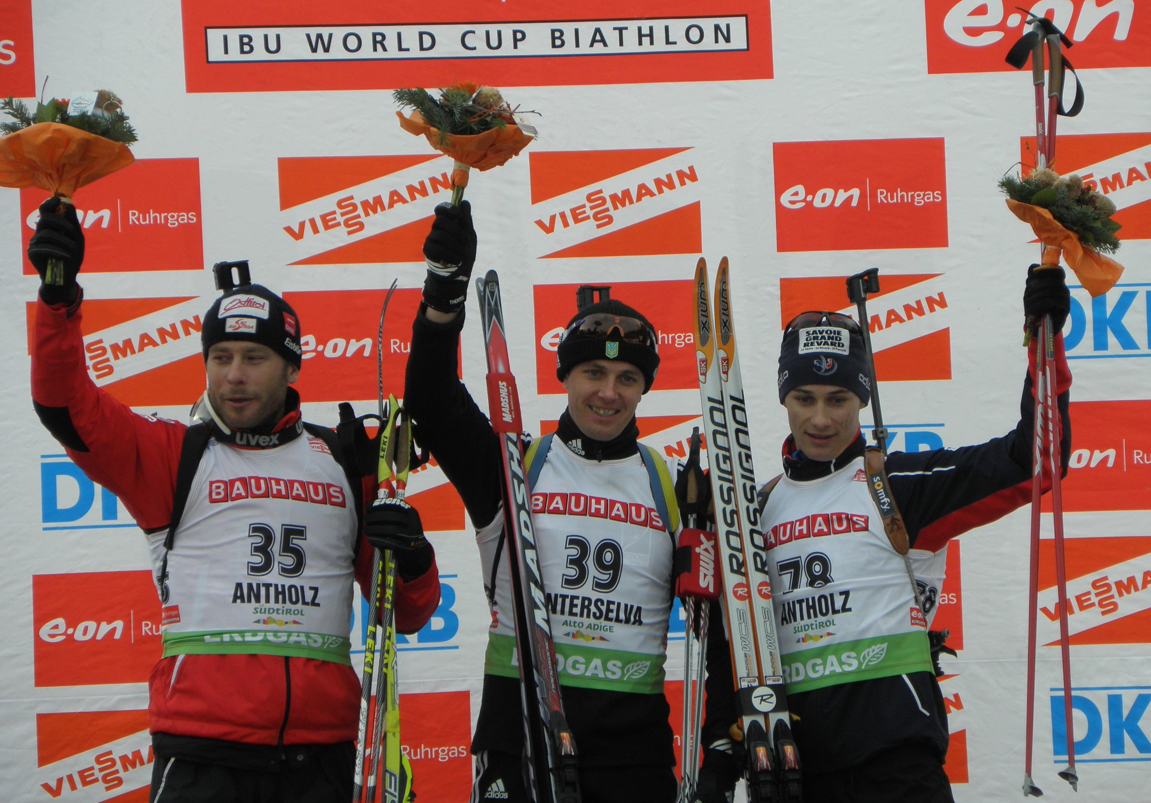 Podium of the Men individual 20k at the World Cup Biathlon Antholz 2010 left to right: Daniel Mesotitsch, Serguei Sednev and Alexis Boeuf